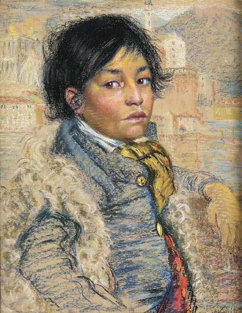 Native boy in front of a Canadian village.